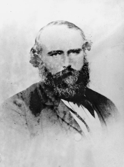 Stephen James Carkeek in about 1865. Carkeek was a New Zealand customs officer in Wellington, who retired in 1867 to Featherston to become a sheep farmer and amateur astronomer. This photograph is from the collection of the Alexander Turnbull Library, Ref. 1/2-038563-F